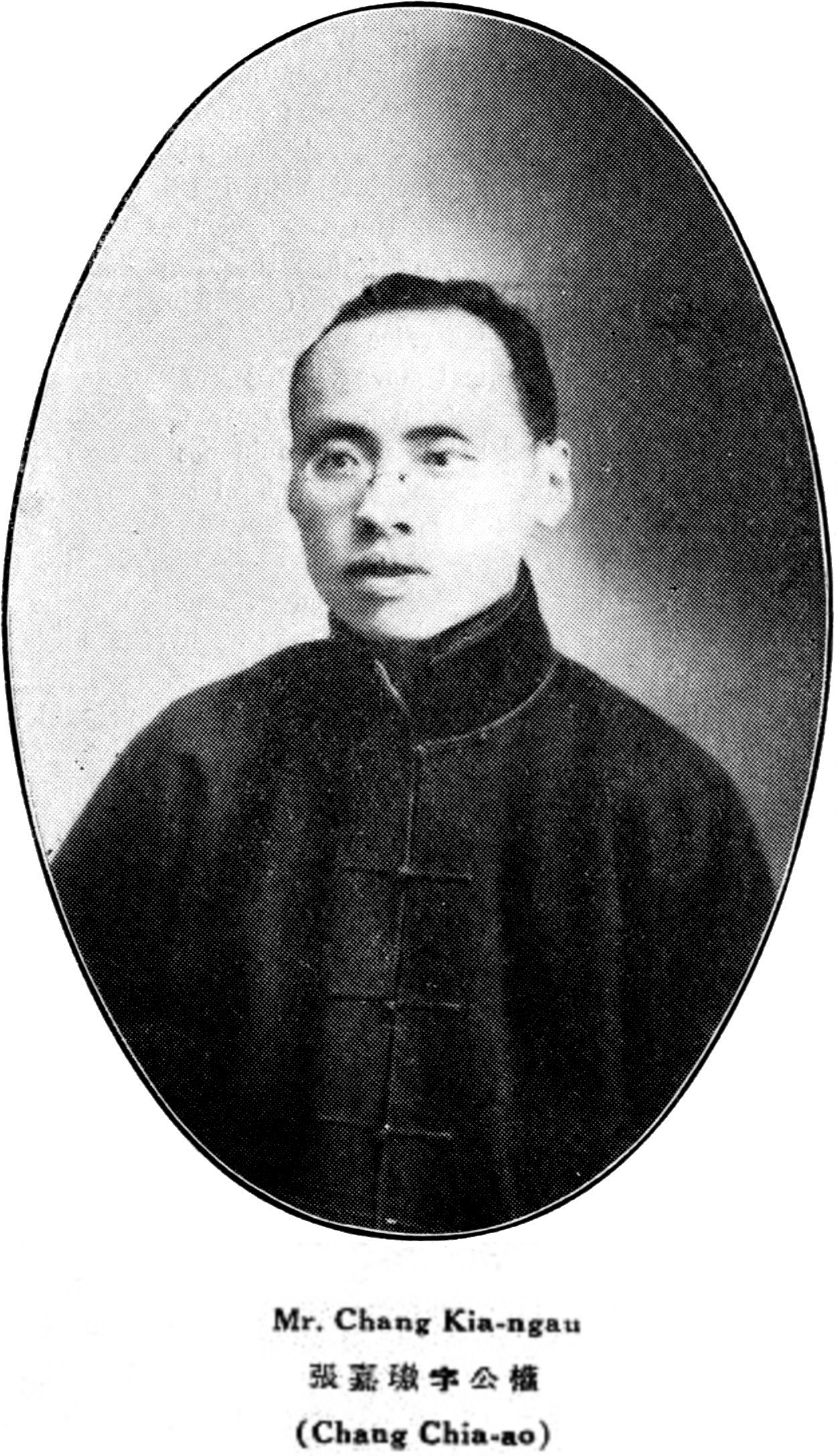 Zhang Jia'ao (Chang Chia-ao; Chang Kia-ngau) (1889 - 1979)